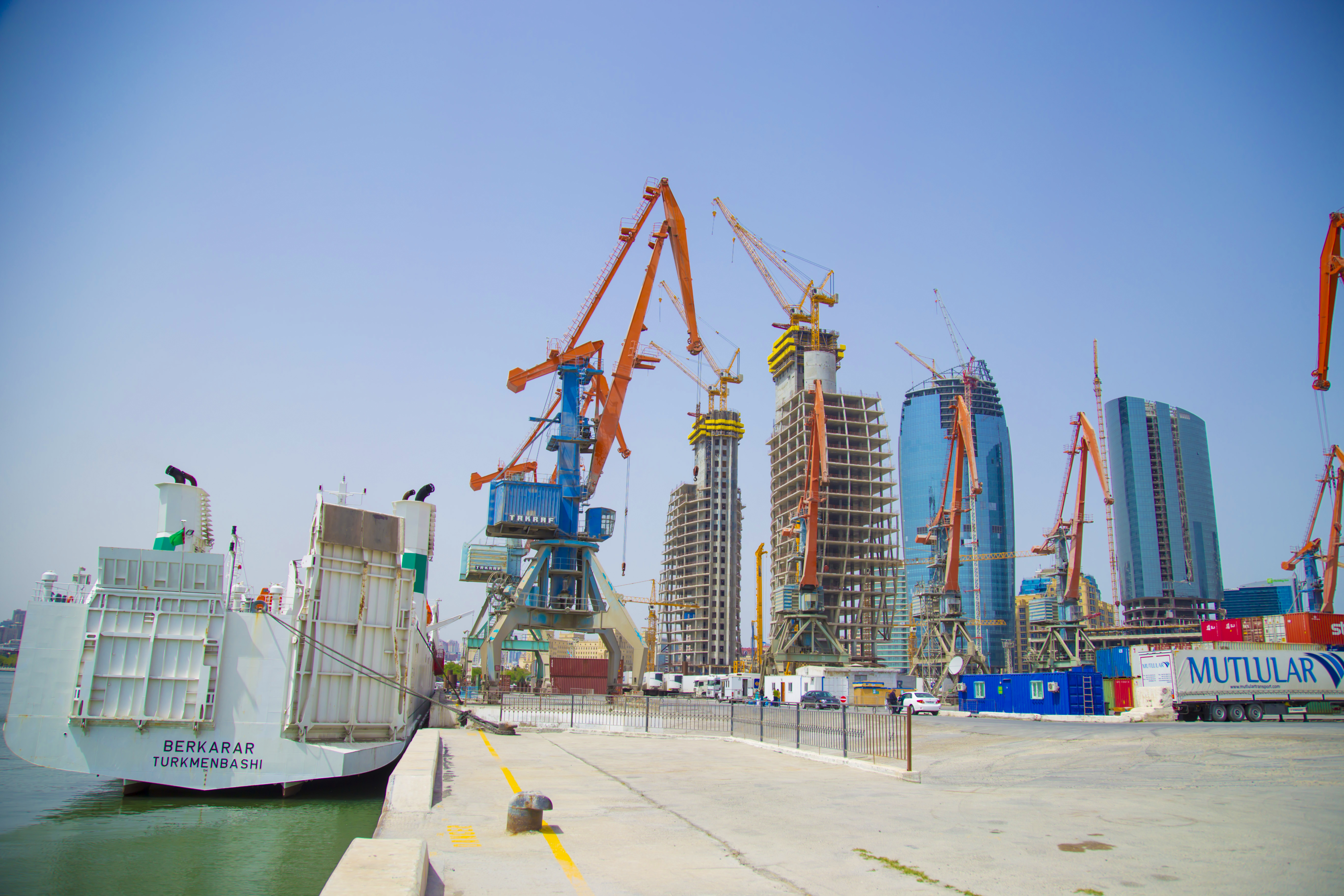 Main Cargo Terminal